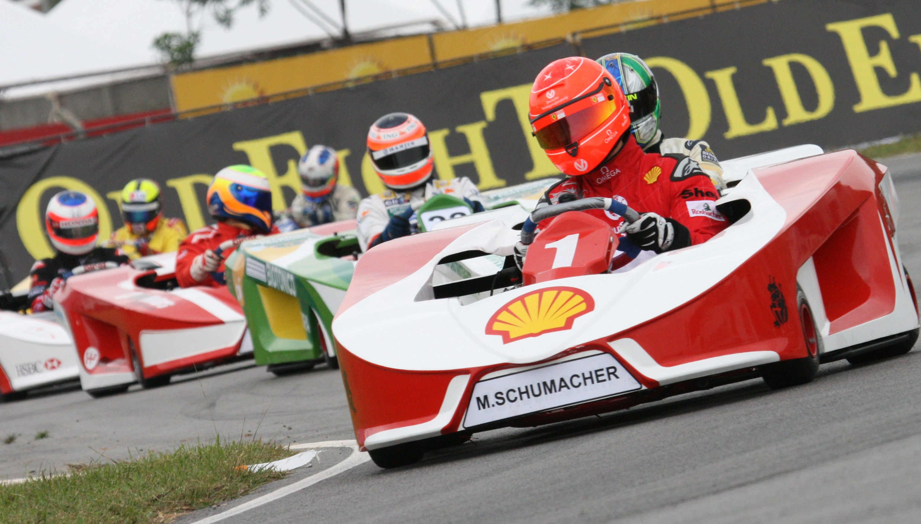 Desafio Internacional das Estrelas 2007 Race 1: (from this side to the depth) Michael Schumacher (#1), Lucas Di Grassi, Nelson Piquet Jr., Felipe Massa, Rubens Barrichello, Luciano Burti, and Felipe Giaffone.